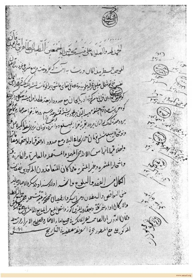 A document on Azerbaijan. Safavid period